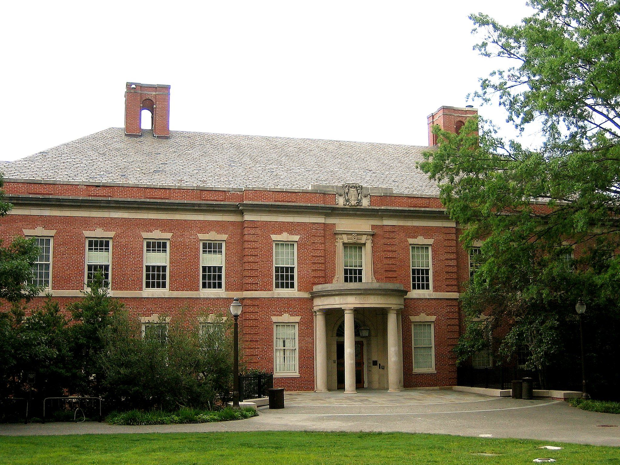 Hudson Hall at Duke University